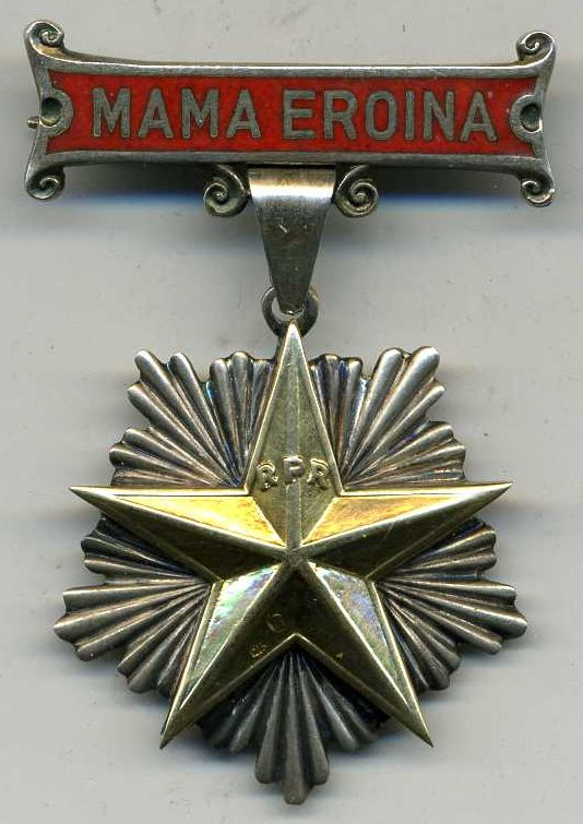 Order "Heroe Mother", RPR